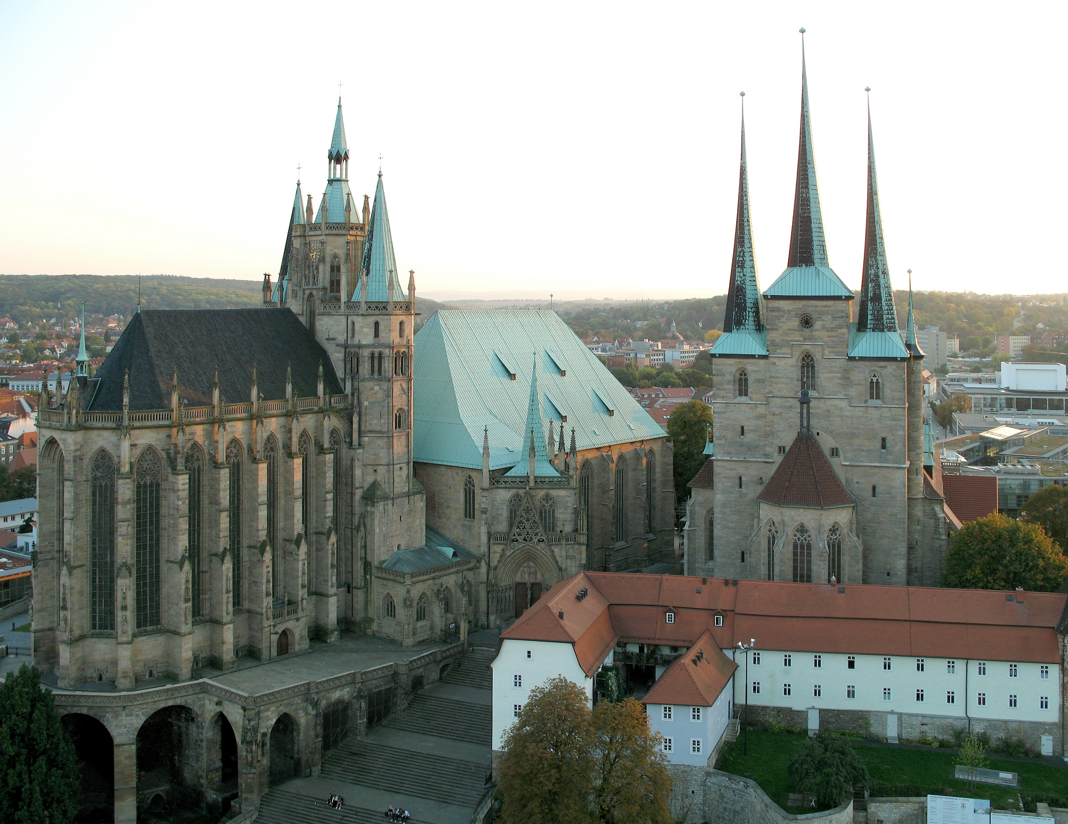 Erfurt Cathedral (Erfurter Dom Sankt Marien) and Church St. Severius, self shot from a Ferris Wheel at the Erfurt Oktoberfest 23rd Sept 2007